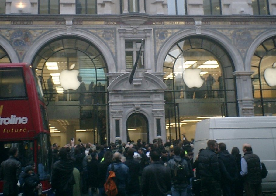 Photo of the Apple retail store in London opening on Regent Street at 10am on 20 November 2004, it is the first store in Europe, and only the third outside the United States (the other two are in Tokyo and Osaka).